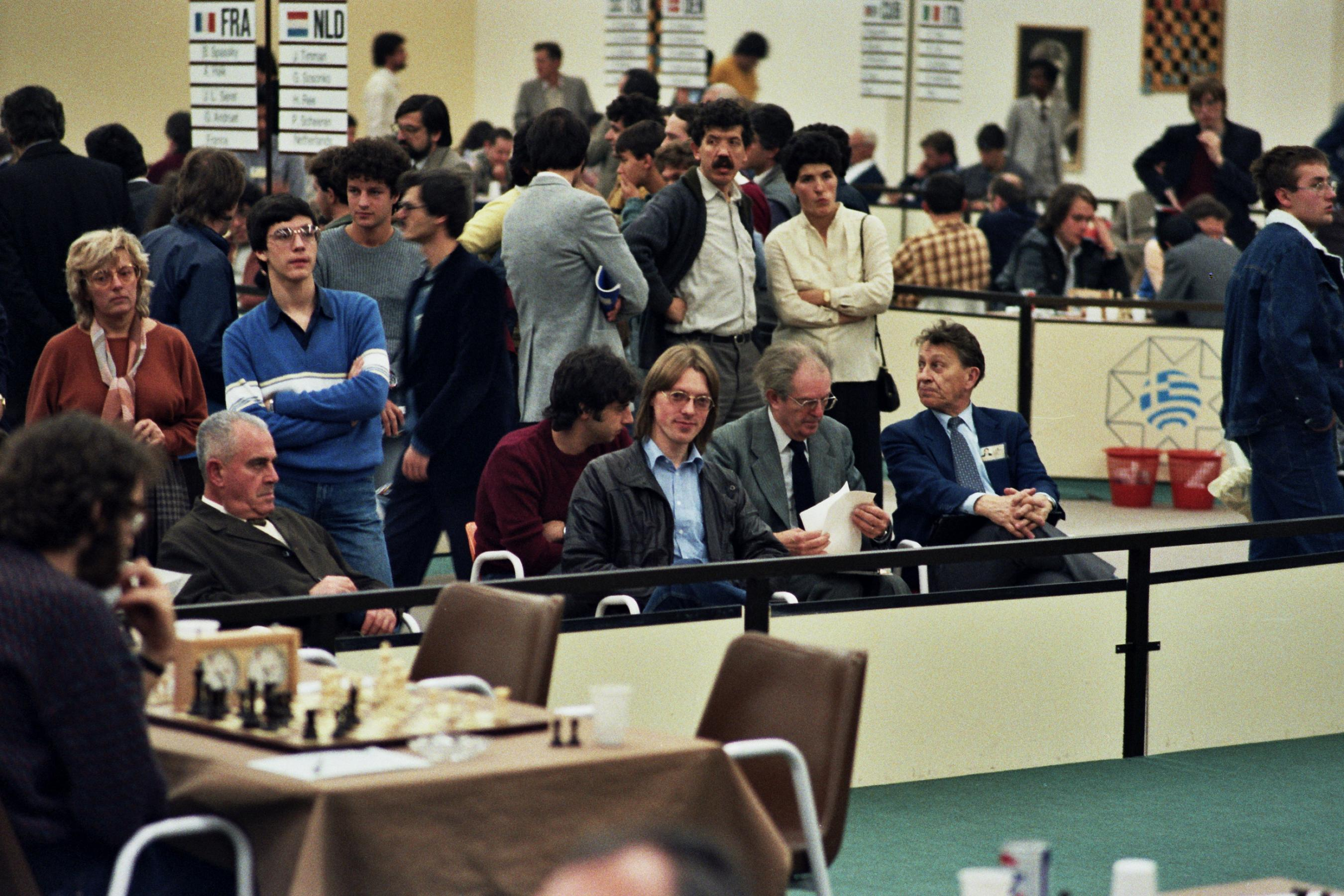 Peter Weber among other spectators, Chess Olympiad 1984 in Thessaloniki, Photographer Gerhard Hund.